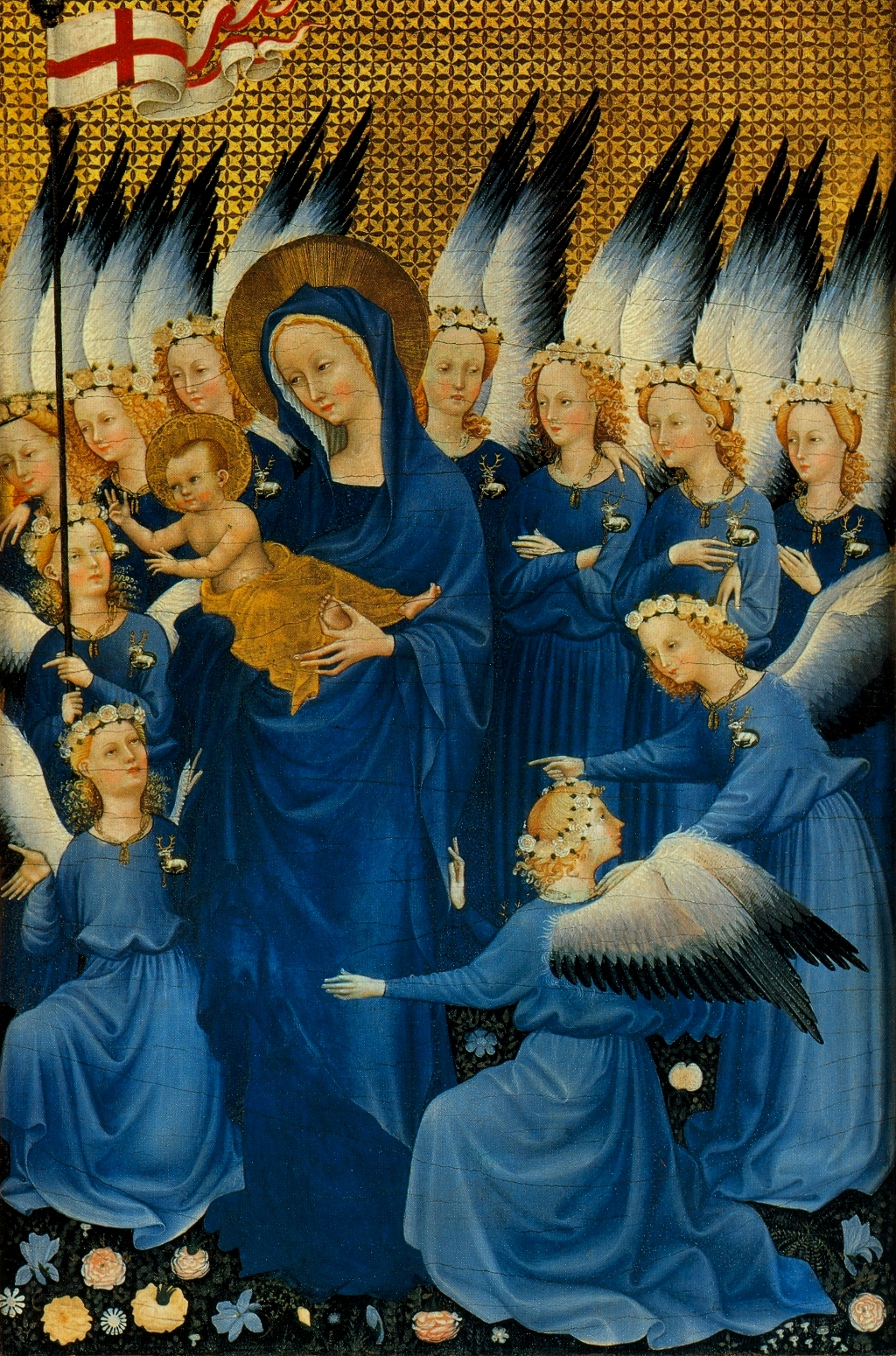 Wilton diptych. Right wing. London NG.